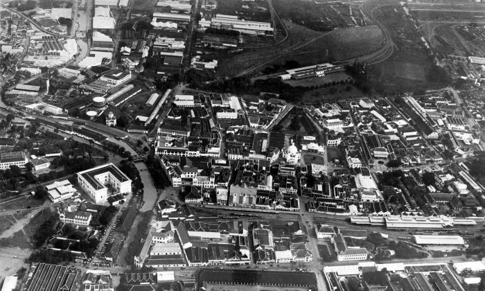 Air photograph of the Semarang,(Central Java), N.I.S. railway station